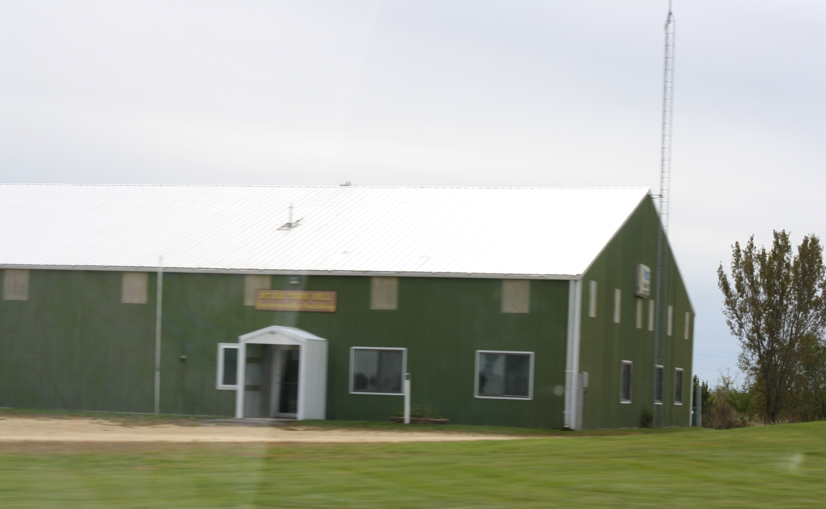 The town hall for Mount Ida, Wisconsin (the town, not the community) along U.S. Route 18.